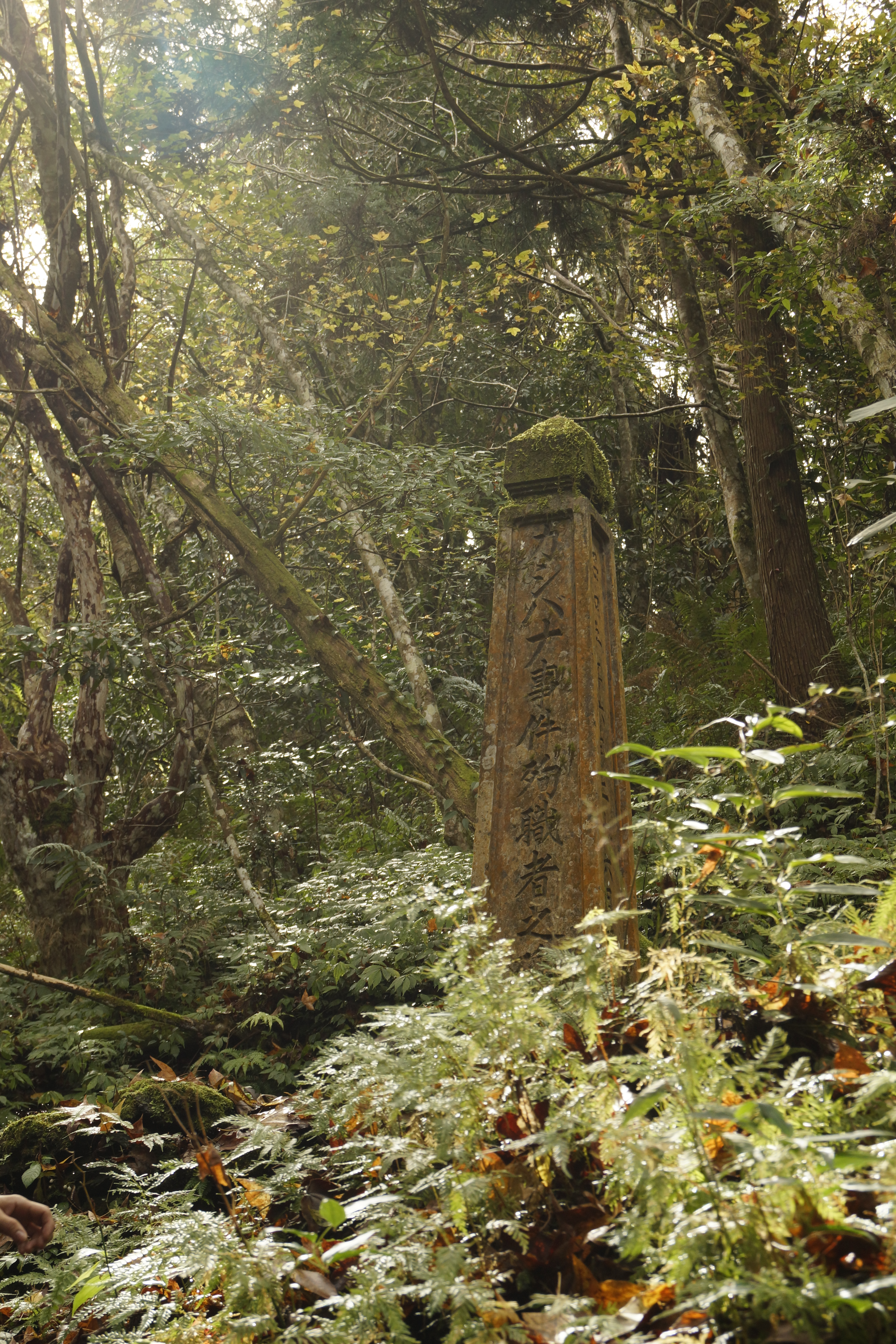 Monument to the Kashibana Incident in the forest. 中文（台灣）: 在森林中喀西帕南事件紀念之碑。